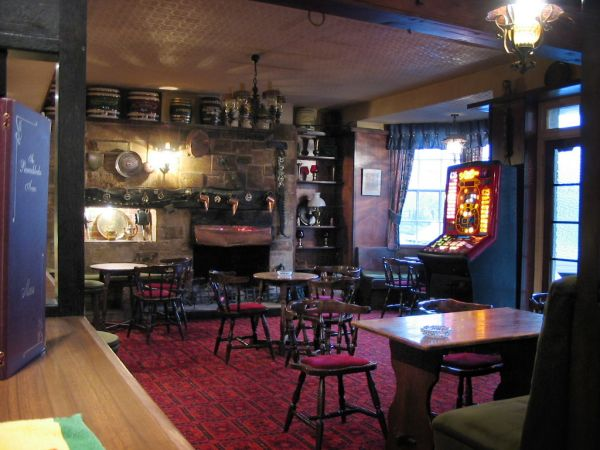 The interior of a typical English pub, in this case the Penruddocke Arms, which lies between Dinton and Wilton in Wiltshire.